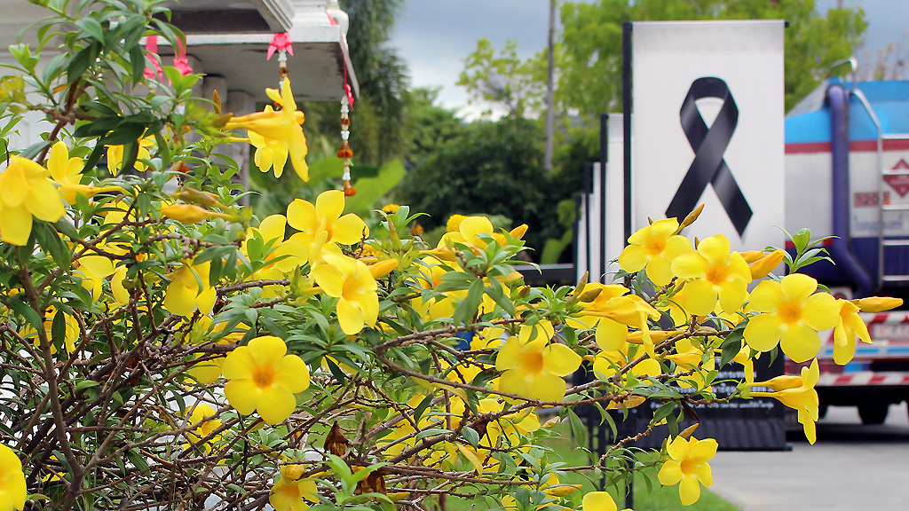 Mourning for King Bhumibol Adulyadej, yellow Dararat flowers in front of black and white mourning bow icons at time for the late kings cremation (26-10-2017)